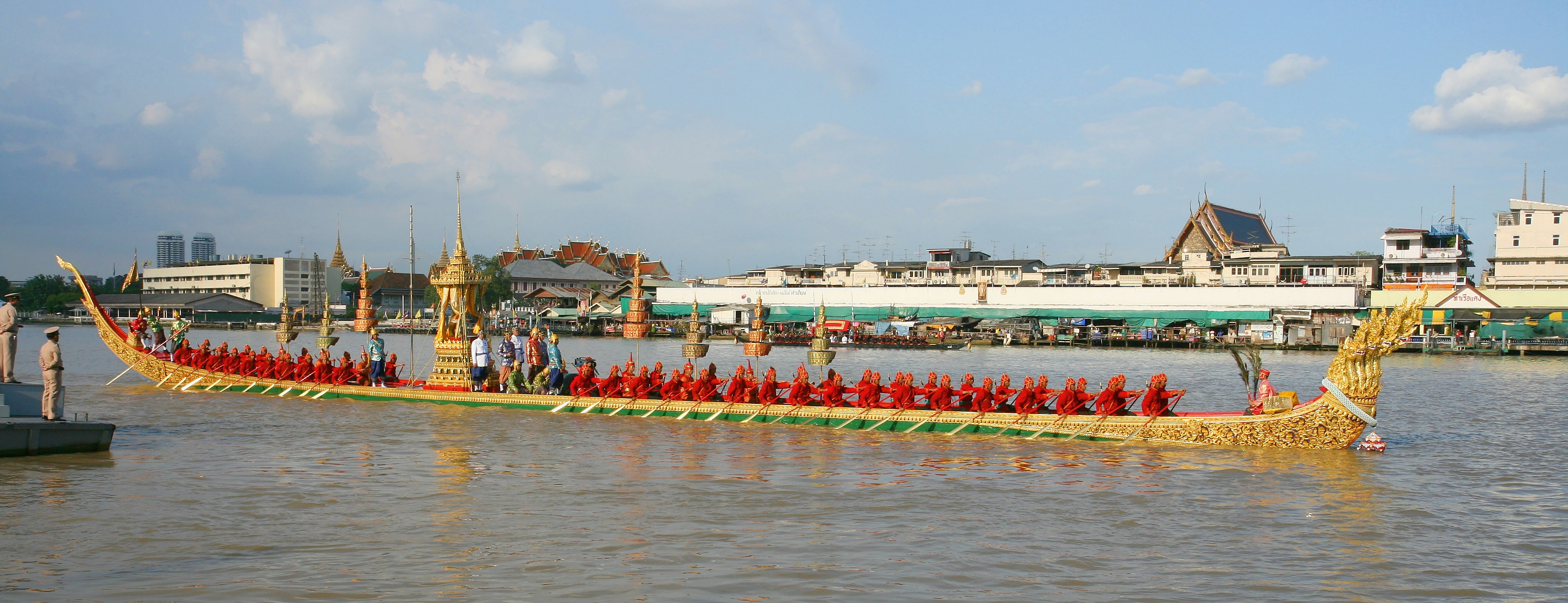 Royal Barge Anantanagaraj of Thailand. Dress rehearsal on 29 October 2007 for 5 November 2007 Royal Barge Procession for Royal Kathin Ceremony at Wat Arun. On the left with navies was the Wat Arun pier where Royal Barge Suphannahongsa will be docked. The Royal Kathin (Buddhist monk robes) was on the pavillion aboard the barge.